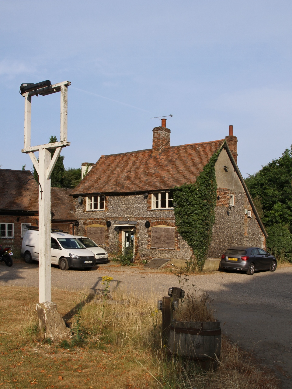 The Crown pub, Gallowstree Hill, Nuffield Common, Oxfordshire, seen from the east